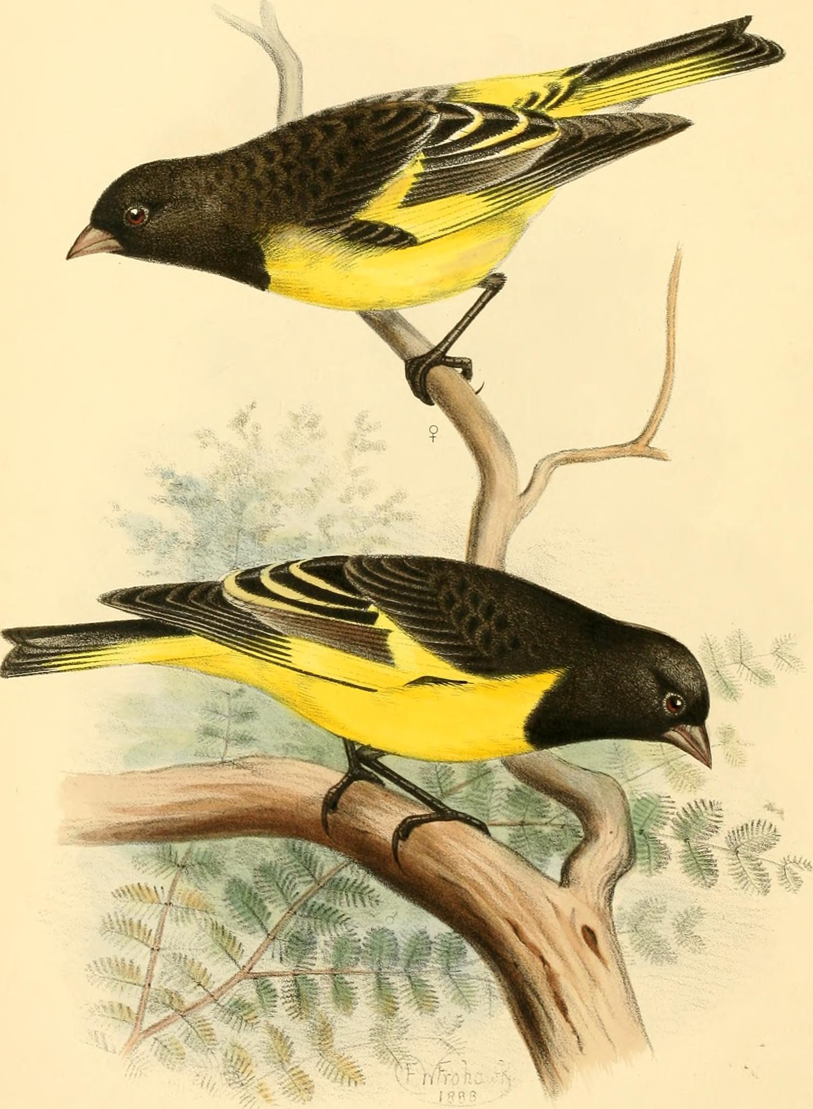 Title: A monograph of the weaver-birds, Ploceidae, and arboreal and terrestrial finches, Fringillidae Year: 1888 (1880s) Authors: Bartlett, Edward, d. 1908 Subjects: Weaverbirds Finches Publisher: Maidstone, The author Text Appearing Before Image: In heraldry the Cardinal Grosbeak forms the crest to the arms of thefamily of Huger (South Carolina; granted 1771). Arms. Ar. a human heart emitting flames, betw. two laurel branchesfructed, saltireways, in chief, and an anchor erect, in base, all ppr. betw.two flaunches az. each charged with a fleur-de-lis or. Crest—a sprig,thereon a Virginia Nightingale, all ppr. Motto —Ubi libertas ibi patria. PI. 11 Text Appearing After Image: ■p W Trohawk del 8C libK Hariharb imp. CHRYSOMITRIS UROPYGIALIS, J eb 9 CHRYSOMITRIS UROPYGIALIS.THE YELLOW-RUMPED SISKIN. PLATE II. Chrysomitris atmtiis, Cassin, Gillisss Expedition, ii. p. 181 (1855).Chrysomitris xantlwmelcena, Reiclib. ? Journ. fiir orn. 1855, p. 55.Fringilla sp. ? Eyton, Cat. Birds, p. 256. No. 3211 (1856).Chrysomitris uropygialis, Scl. Cat. Amer. Birds, p. 125 (1862).Chrysomitris uropyyialis, Cassin, Proc. Acad. Philad. 1865, p. 91.Chrysomitris urojjygialis, Scl. Proc. Zool. Soc. 1867, pp. 322, 338.Chrysomitris uropijgialis, Phil. Anal. Univers. Chile, xsxi. 1868, pp.263, 295, 303, 316, 325, 329. Chrysomitris xanthomelcena, Phil. ? Anal. Univers. Chile, xxxi. 1868, p.325. Fringilla xanthomelcena, Gray, ? Hand-List Birds, ii. p. 81 (1870). Fringilla uropygialis, Gray, Hand-List Birds, ii. p. 81 (1870). Chrysomitris uropygialis^ Scl. at Salv. Nona. Av. Neotr. p. 34 (1873). Fringilla uropygialis, Russ, Stubenvogel, p. 395 (1879). Chrysomitris uropygialis, Tacz. Or